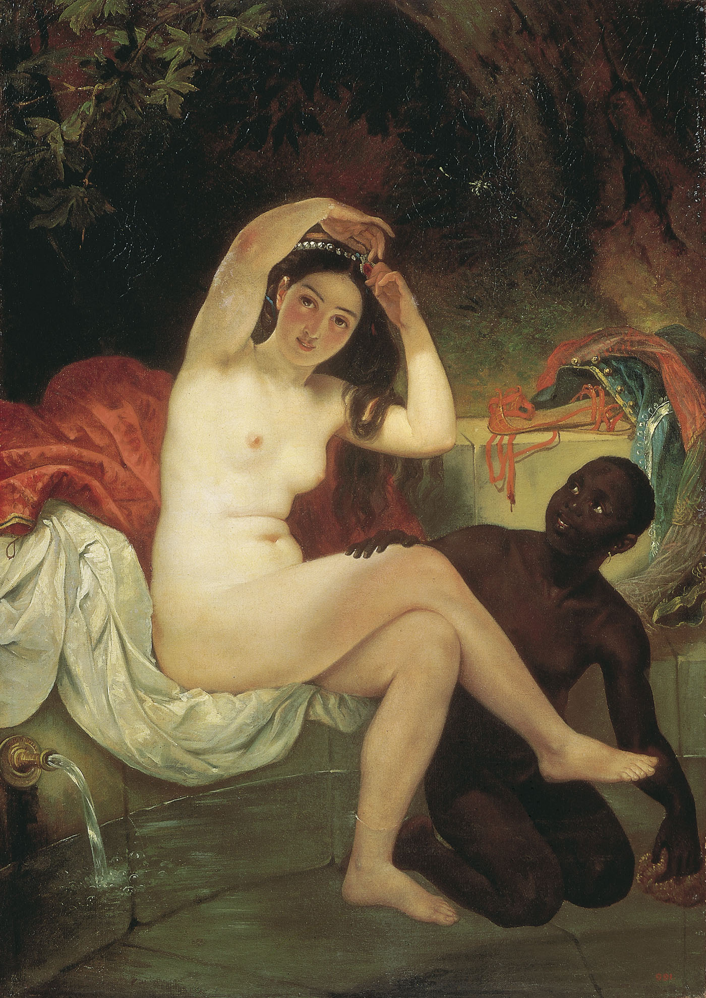 Bathsheba, 1832. Oil on canvas. Not finished. 173 x 125.5 cm. The State Tretyakov Gallery, Moscow, Russia